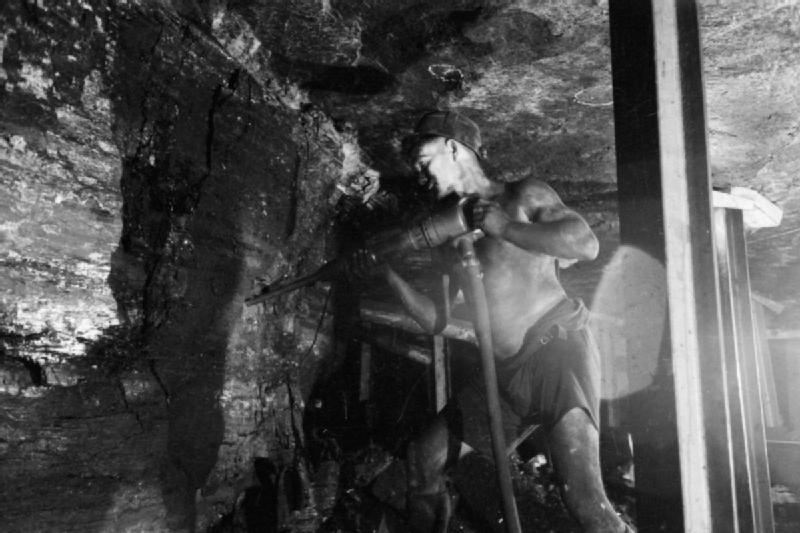 Men of the Mine- Life at the Coal Face, Britain, 1942 A miner, begrimed and sweaty, wearing just a pair of trunks and a helmet, works the coal face with a large drill. The steel props which hold up the roof of the tunnel can be seen on the right of the photograph.